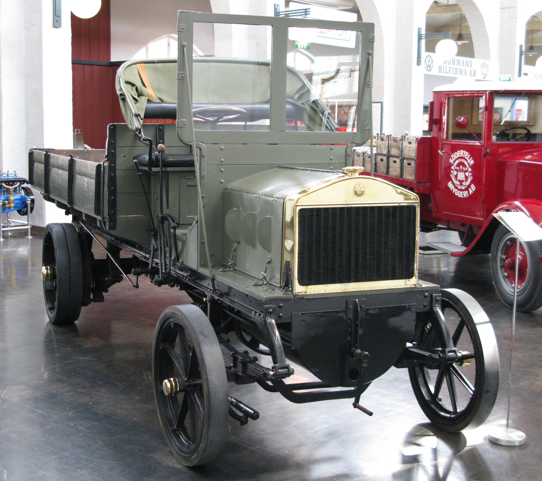 1909 Vabis truck. Location: Scania Museum in Södertälje, Sweden.